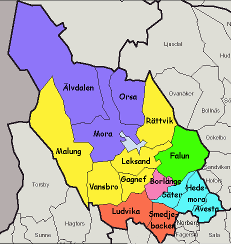 electional division for dalarnas läns landsting